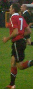 Darron Gibson playing for Man United Reserves at Ewen Fields, 24 August 2010.